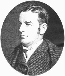 Pre 1923 image, not subject to copyright.